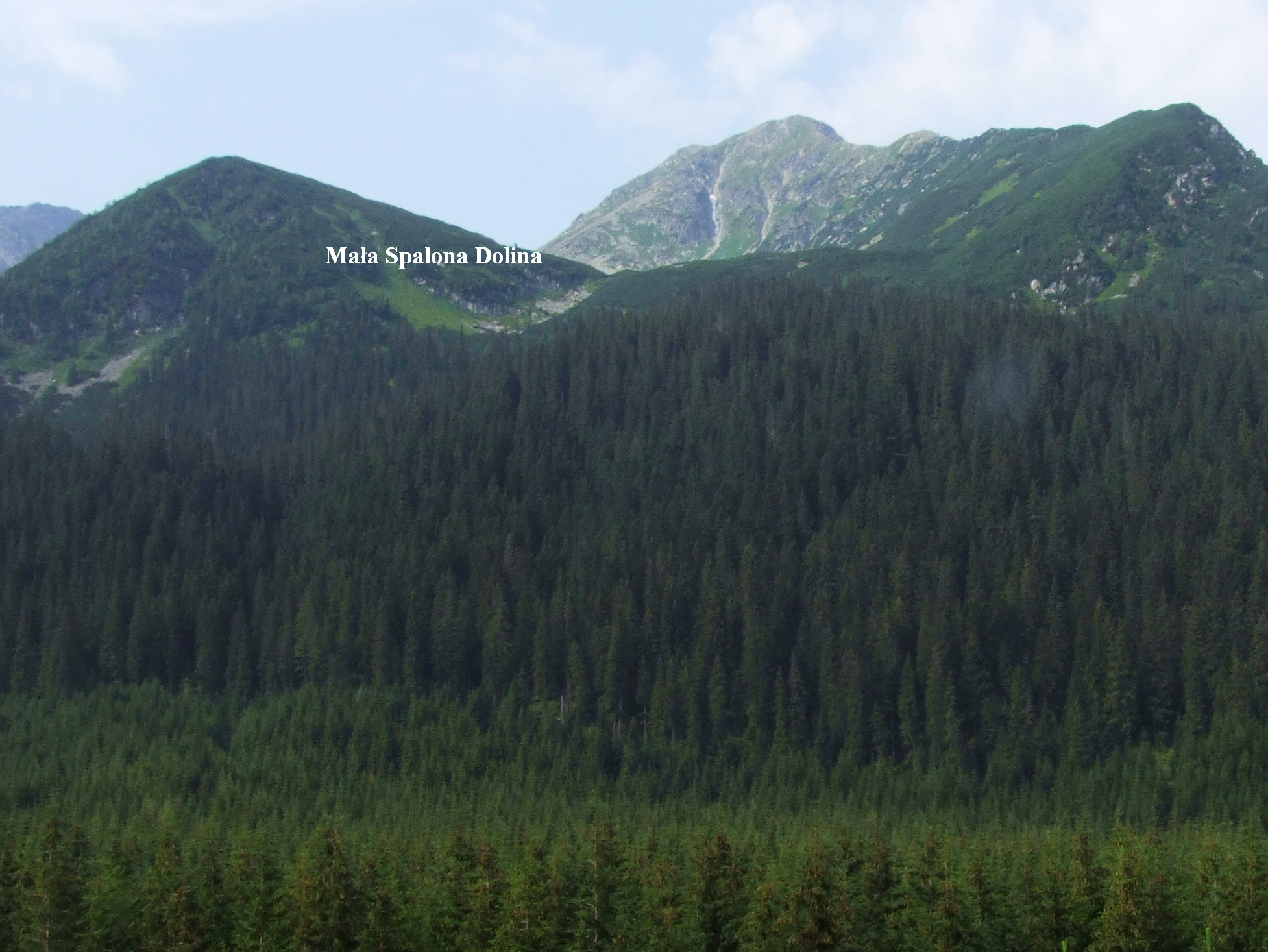 Mała Spalona Dolina (West Tatra Mountains)